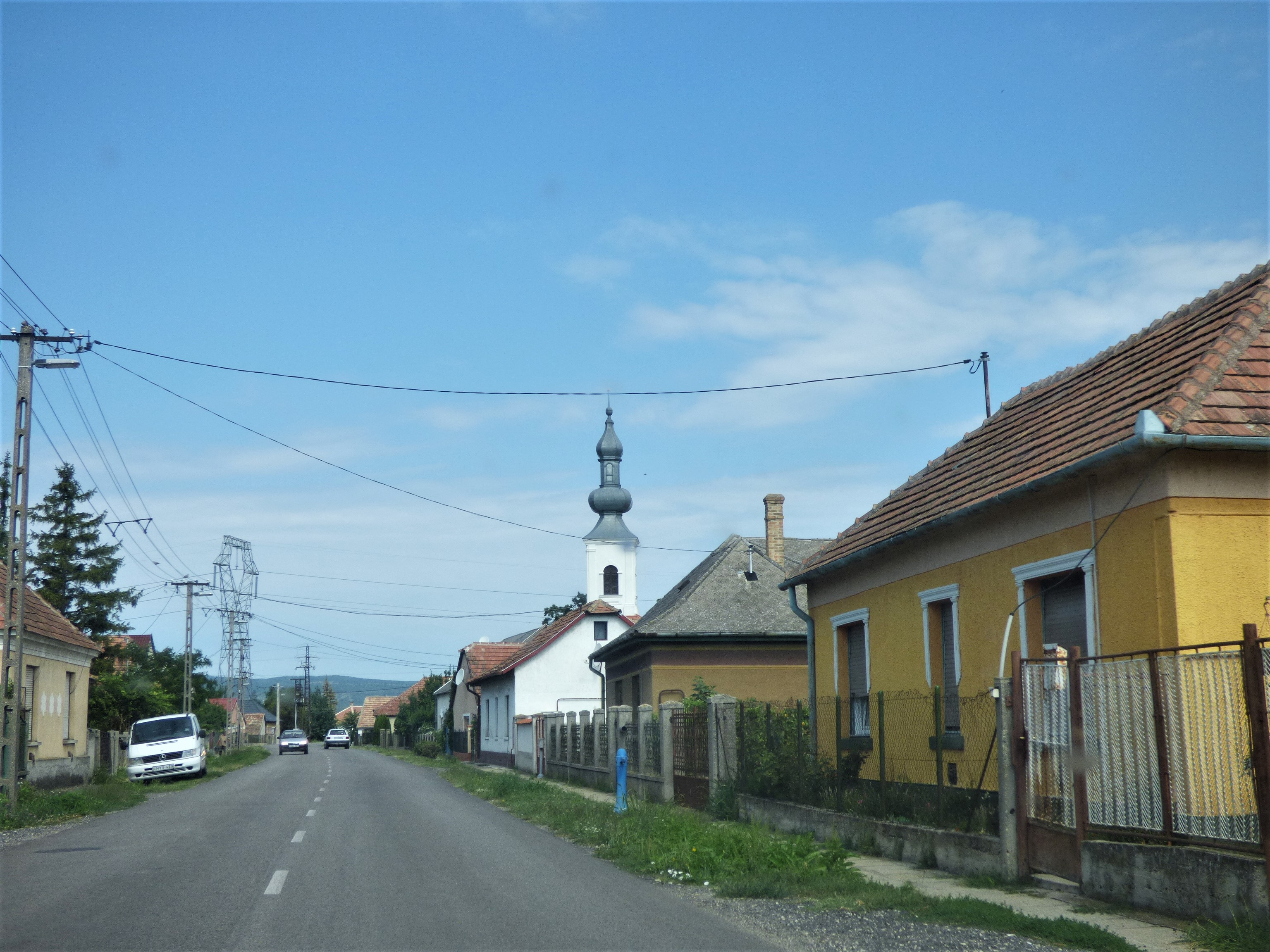 A 72108-es út Ősi központjában